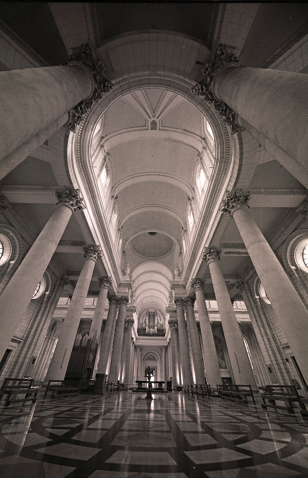 Arras, cathedral.